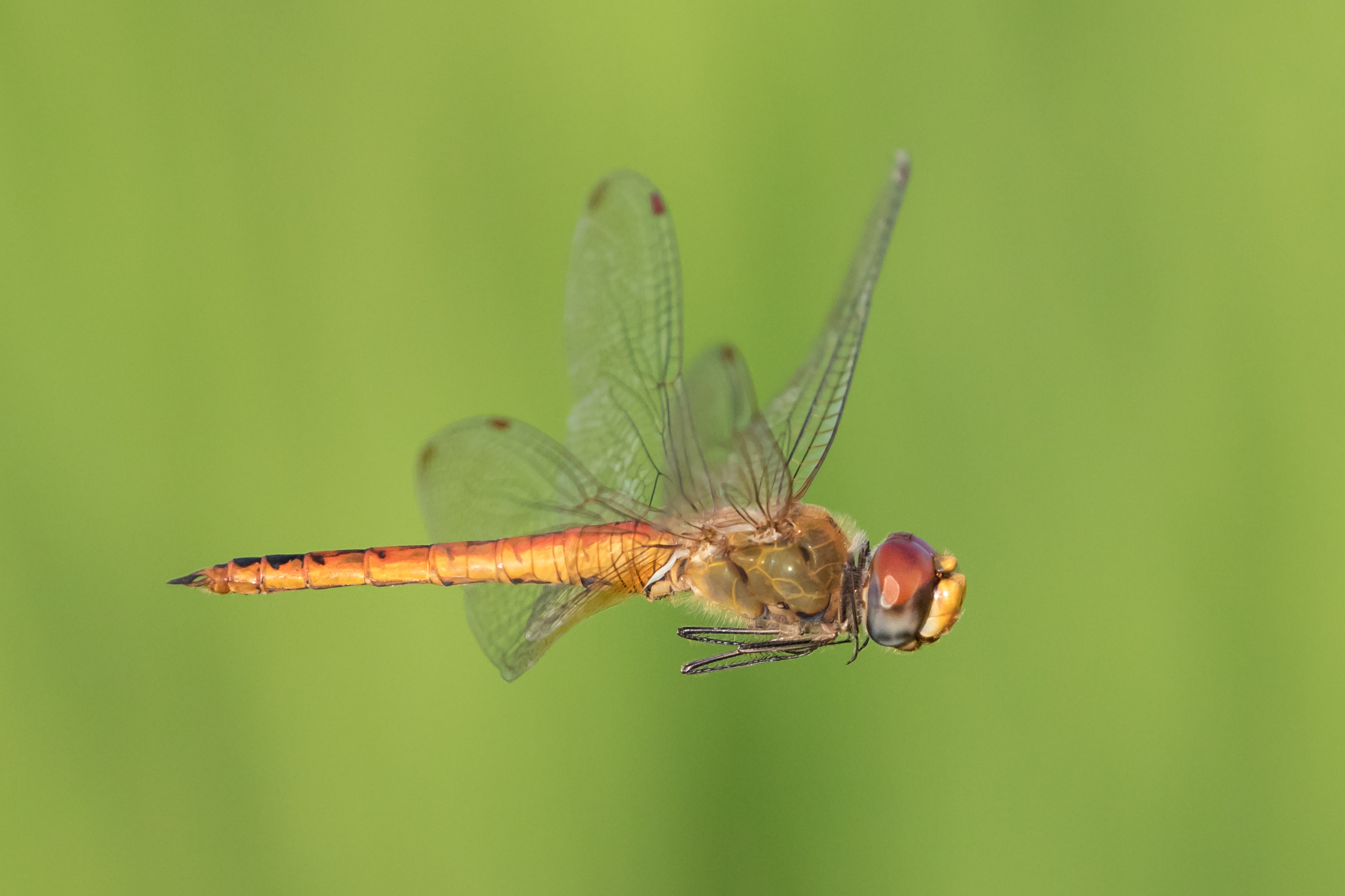 Pantala flavescens (globe skimmer, globe wanderer or wandering glider) male, in flight, in a paddy field, in Don Det, Si Phan Don, Laos. Side view.